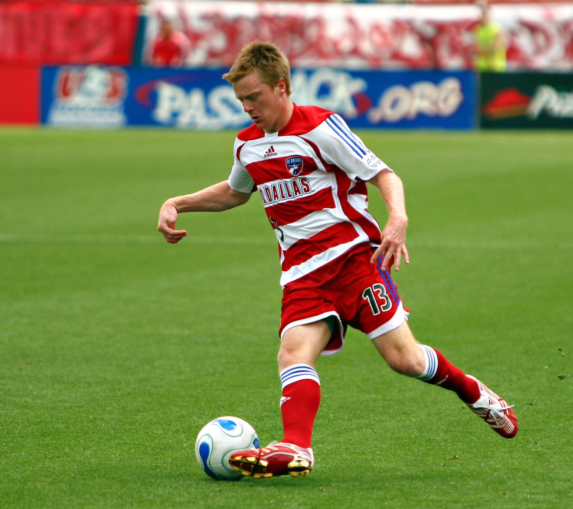 Dax McCarty, American soccer player for FC Dallas (at time of photo)